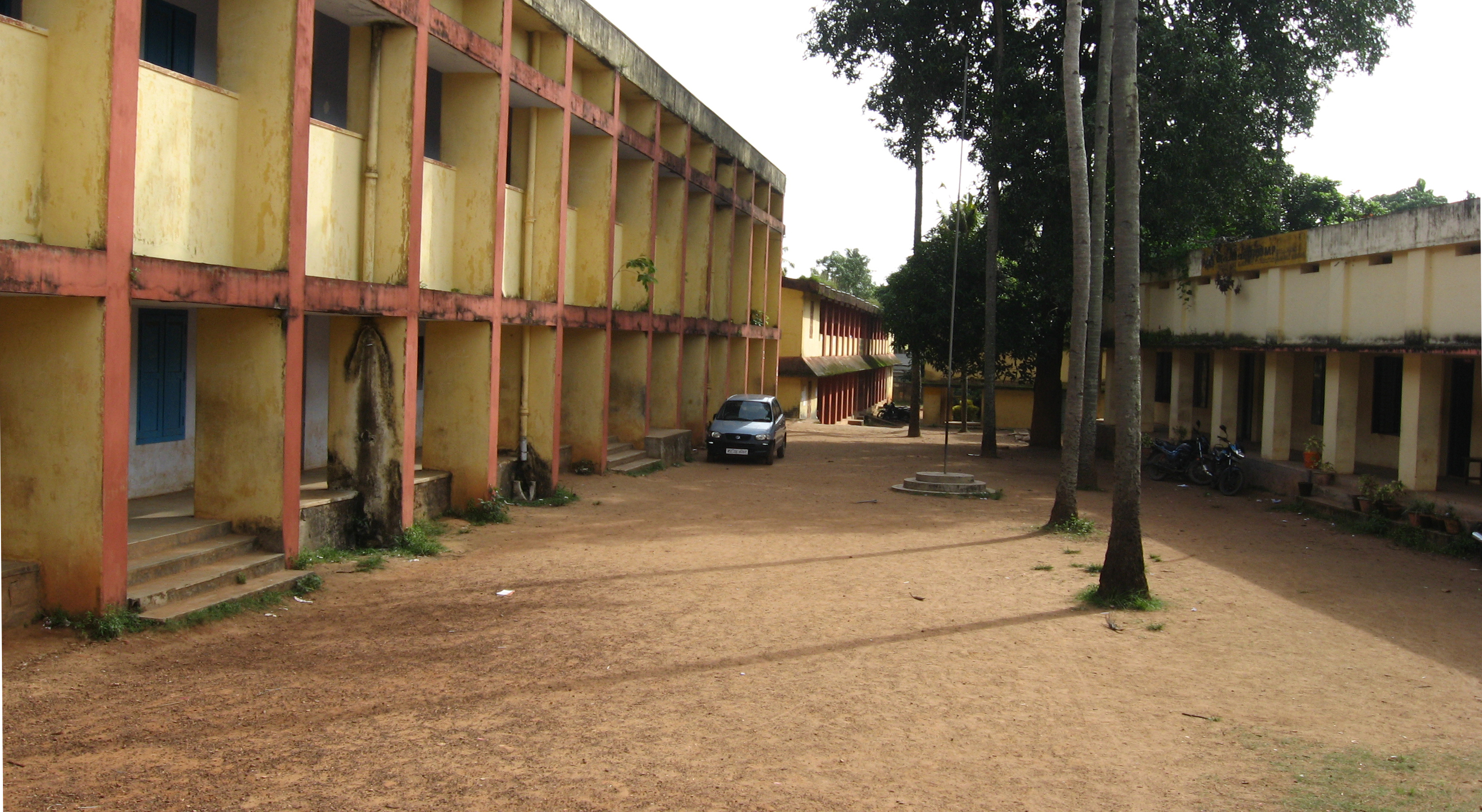 Meenakshi Vilasam Govt Vocational Higher Secondary School,Peroor